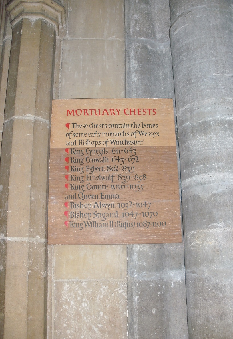 Panel with list of mortuary chests and their contents in Winchester Cathedral. Location: North side of Quire.